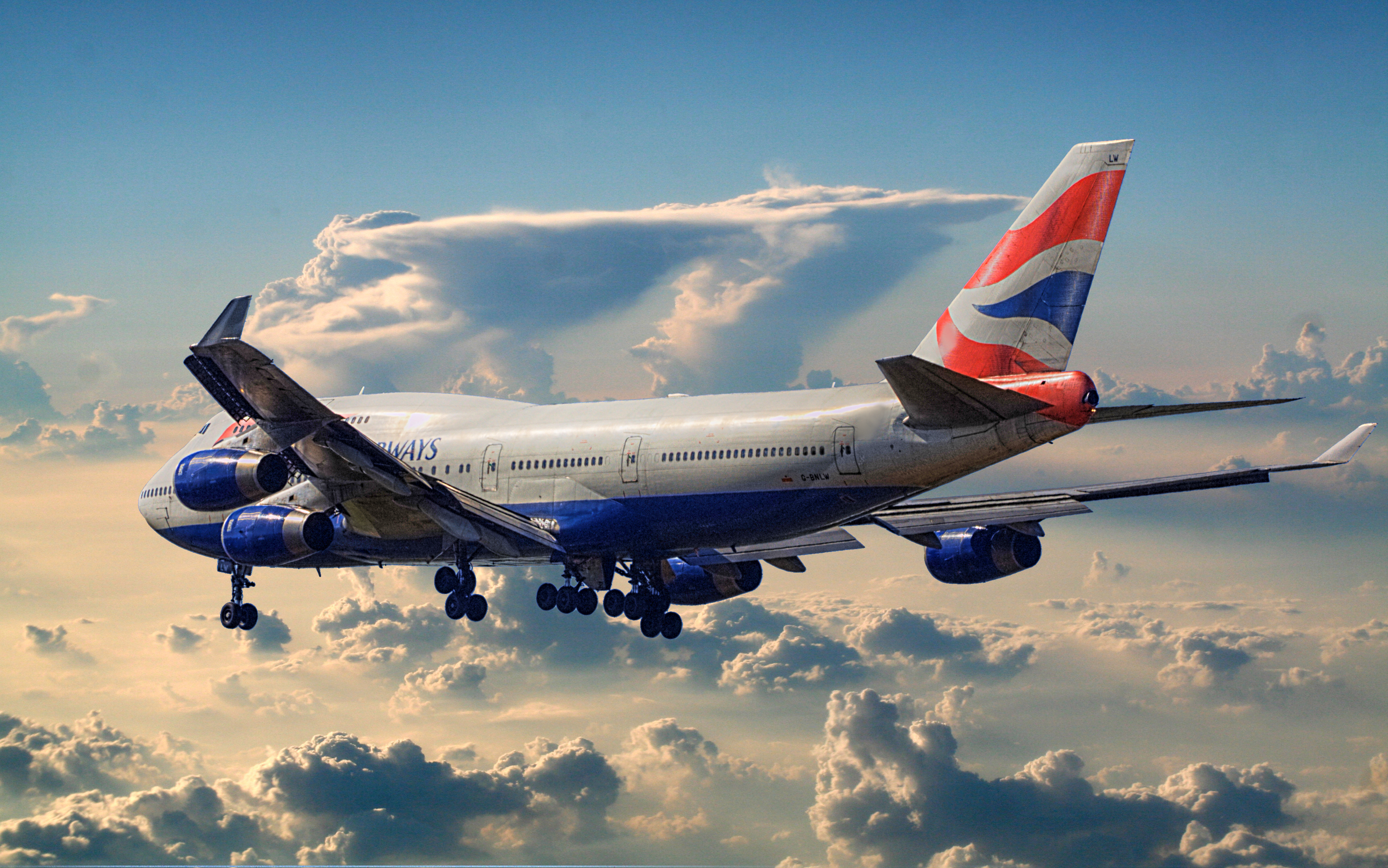 British Airways Boeing 747-400 leaving town. In CreativeCommons colaboration but can't remember the username, please chime in for attribution!